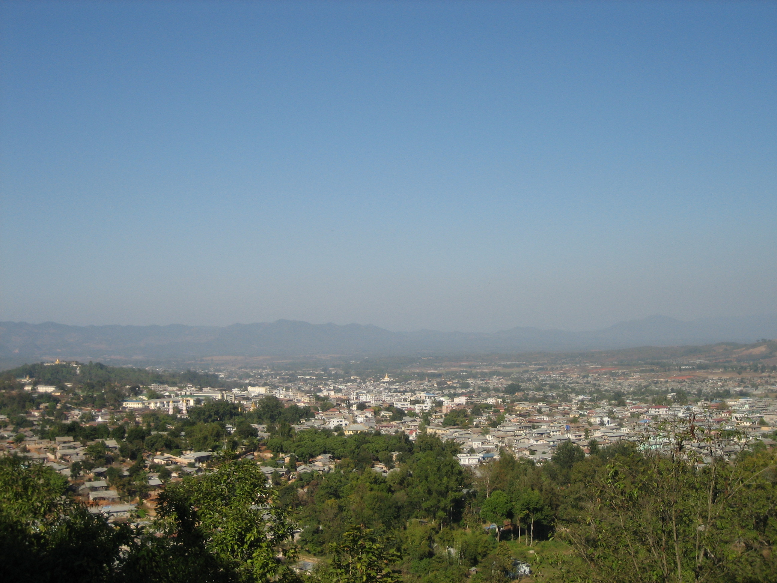 lashio sight